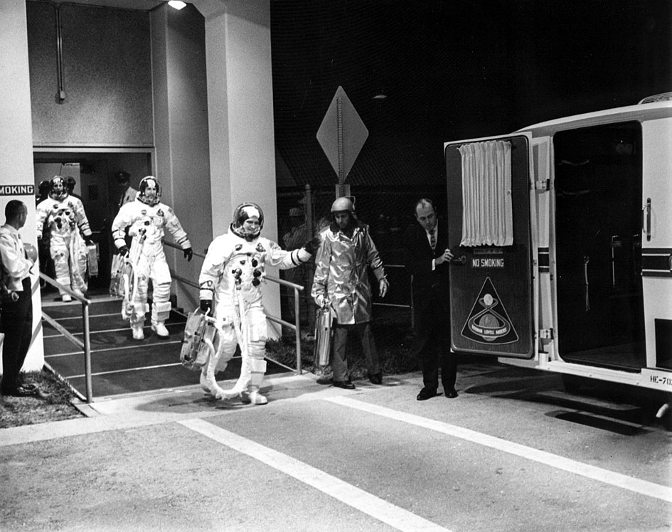 The Apollo 8 crew leaves the Kennedy Space Center's Manned Spacecraft Operations Bldg during the Apollo 8 prelaunch countdown. Astronaut Frank Borman, commander, leads followed by Astronauts James A. Lovell Jr. (waving to well-wishers), command module pilot; and William A. Anders, lunar module pilot. The crew is about to enter the special transfer van which transported them to Pad A, Launch Complex 39.